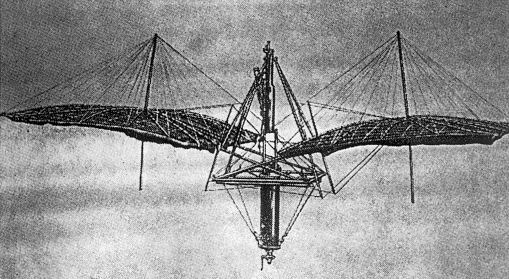 Blériot's ornithopter drawing